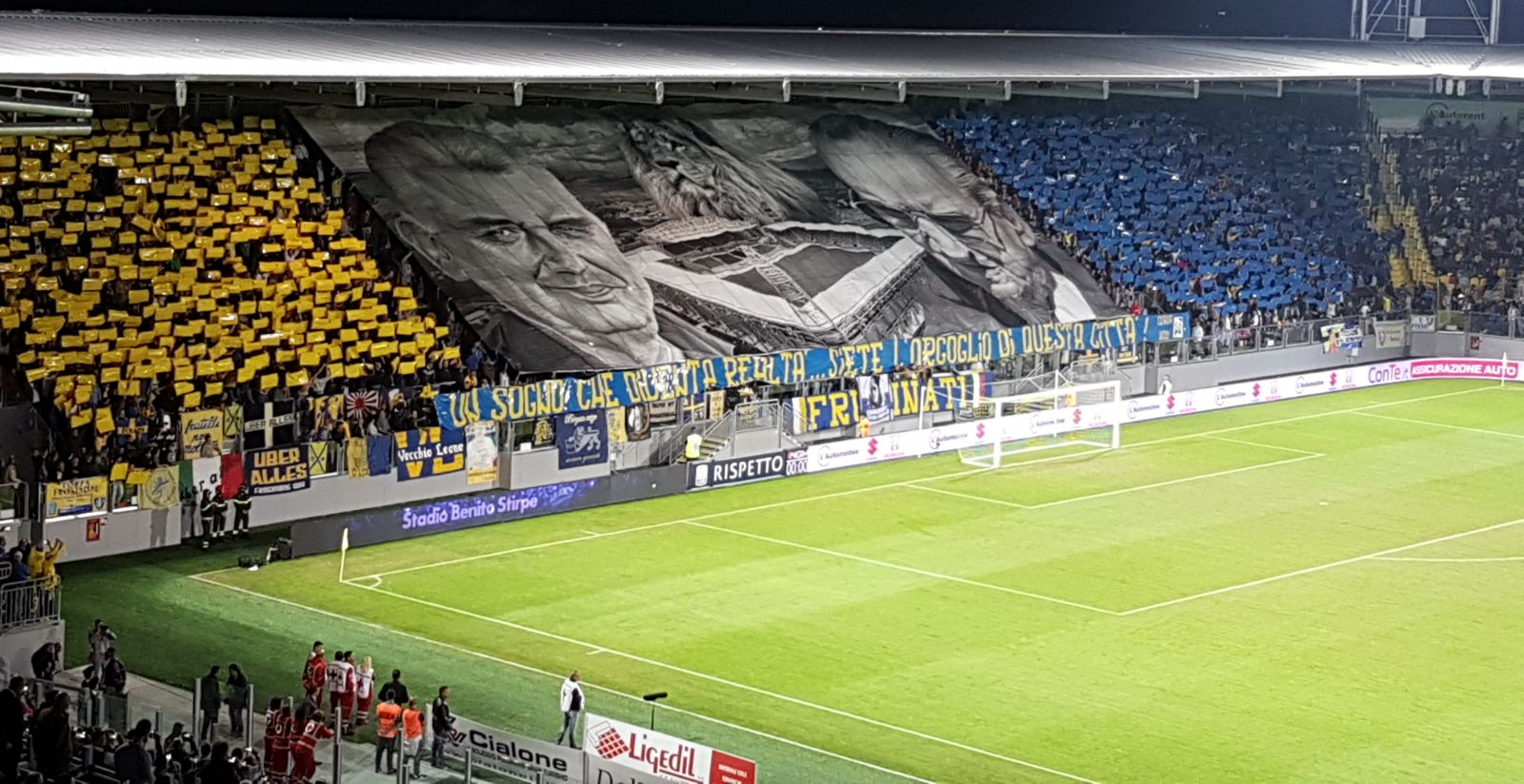 First match at the Benito Stirpe Stadium, North Stand (Frosinone-Cremonese 0-0, 02/10/2017)